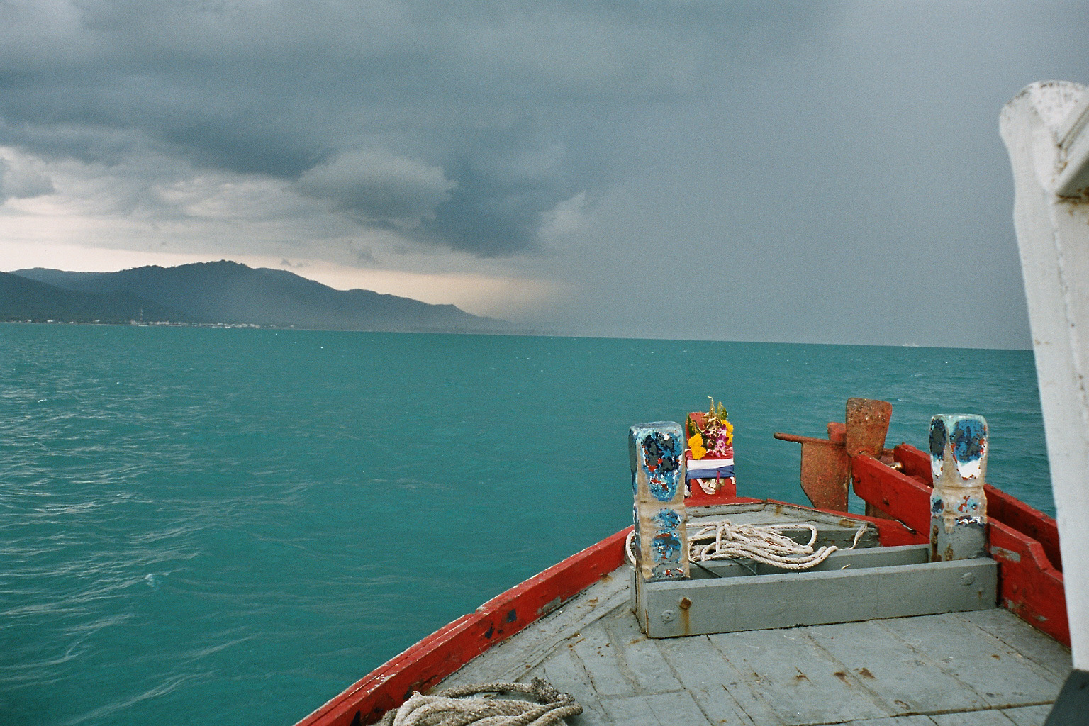 Heavy tropical thunderstorm approaching, near Koh Samui Island, Thailand